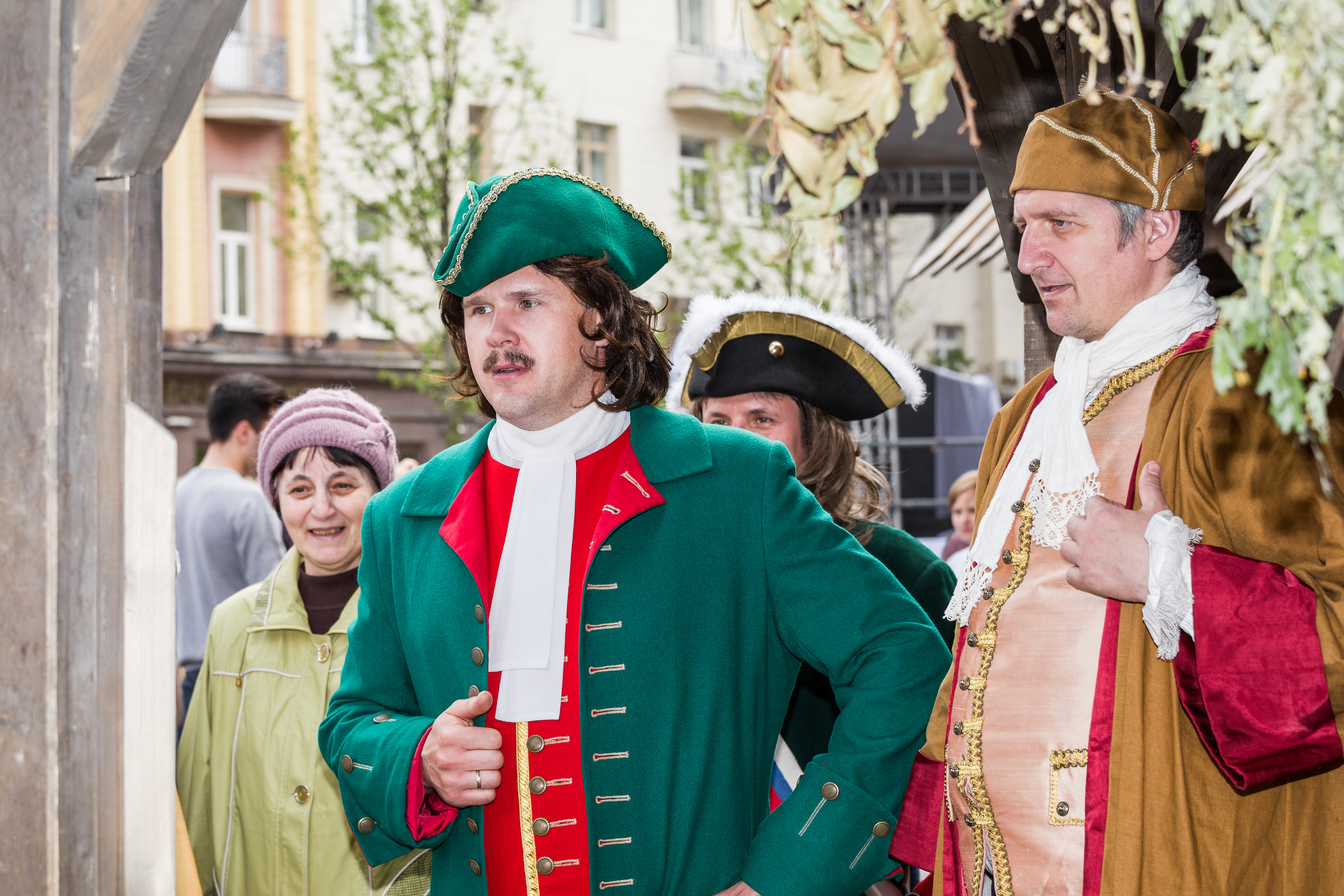 Reconstructors and roleplayers perform at the festival «Times and epochs». Moscow, Tverskaya square.